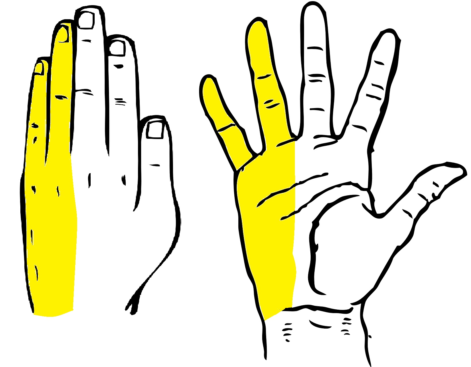 Sensory distribution for ulnar nerve at the hand. The image used is a modified version of a free-use version found in the link provided. The author allows for free use of their images with or without attribution, yet the latter is included as a way to thank them.